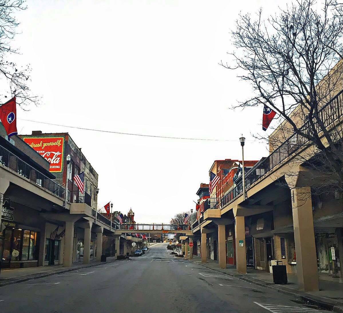 Downtown Sidewalks Morristown TN